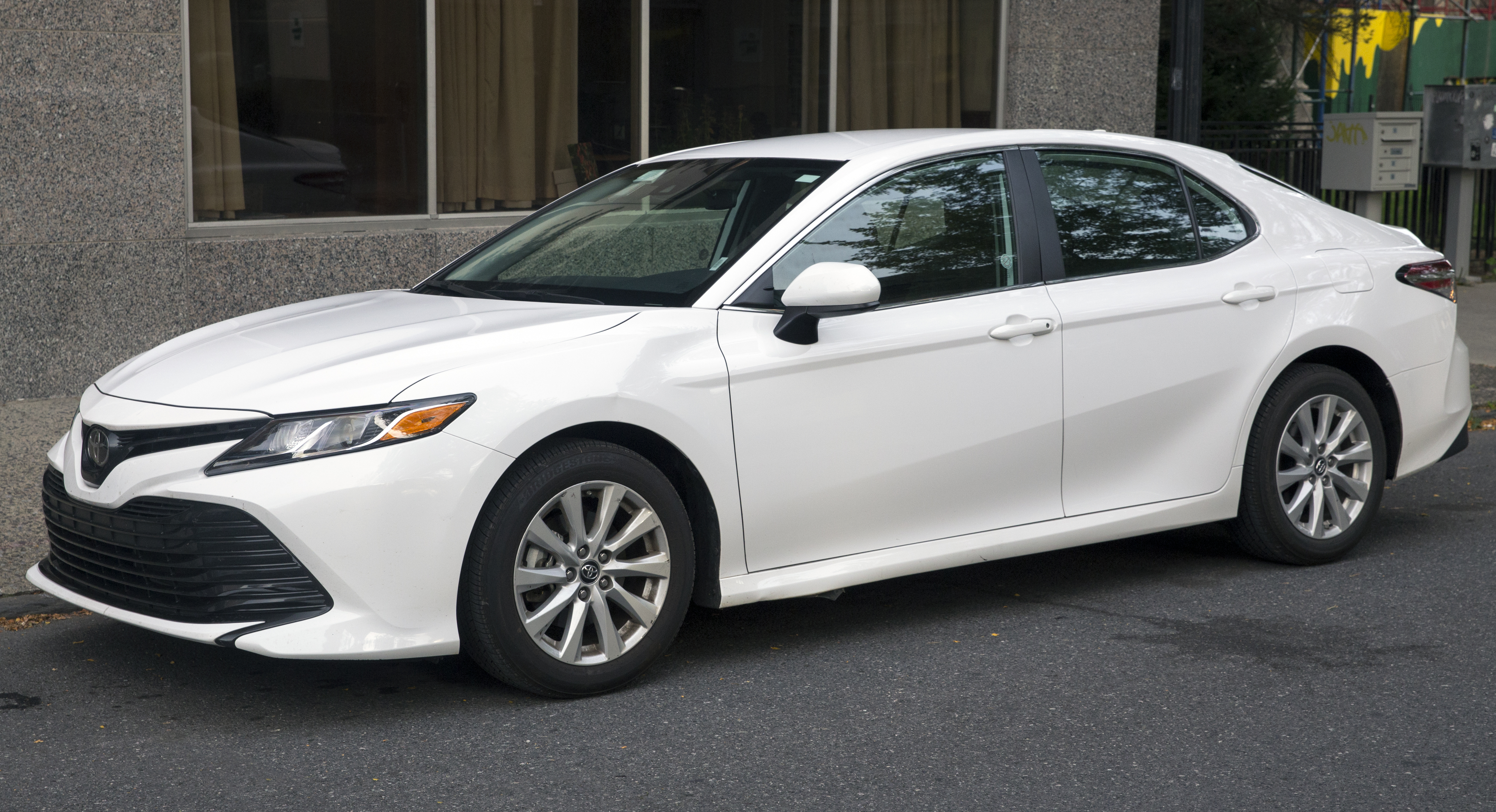 A 2019 Toyota Camry LE in Kingston, NY. Built in Kentucky, 203hp 2.5-liter inline-four, FWD, and an 8-speed automatic. Ho-hum.